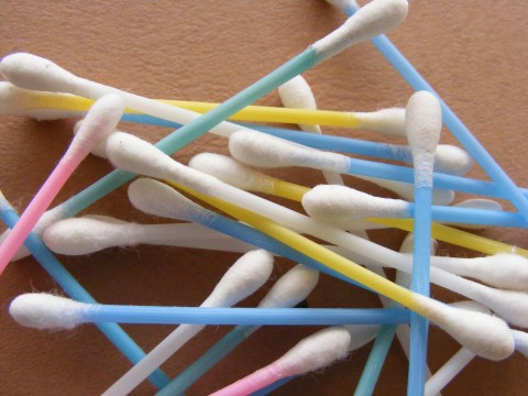 Free Photos – Ear cleaning stick More photos and details about possible copyright or licensing restrictions here: Full Size Up to 3072 x 2304 pixels Information Regarding Copyright